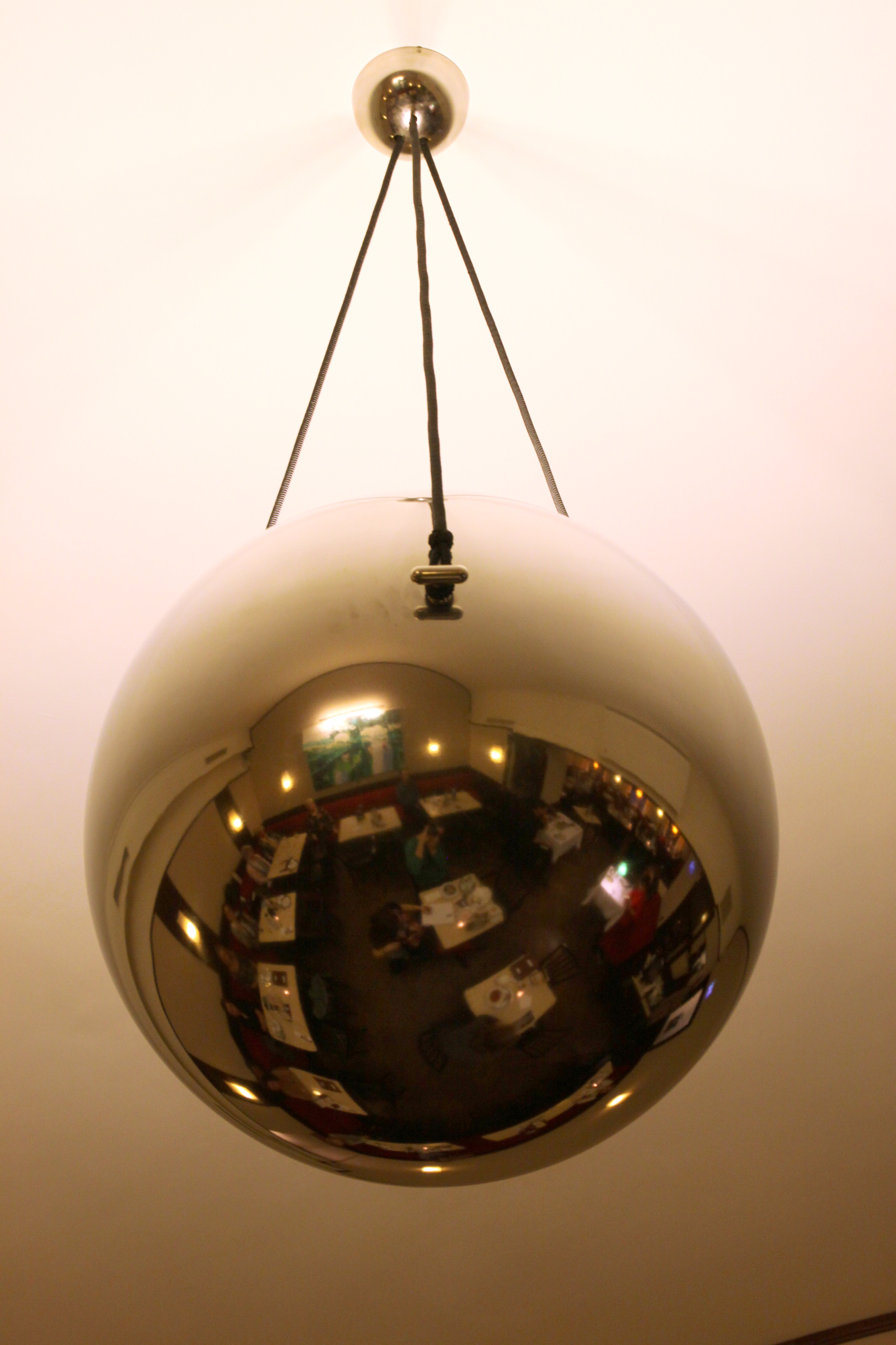 One of the metallic ball lamps in the Café Museum in Vienna, Austria